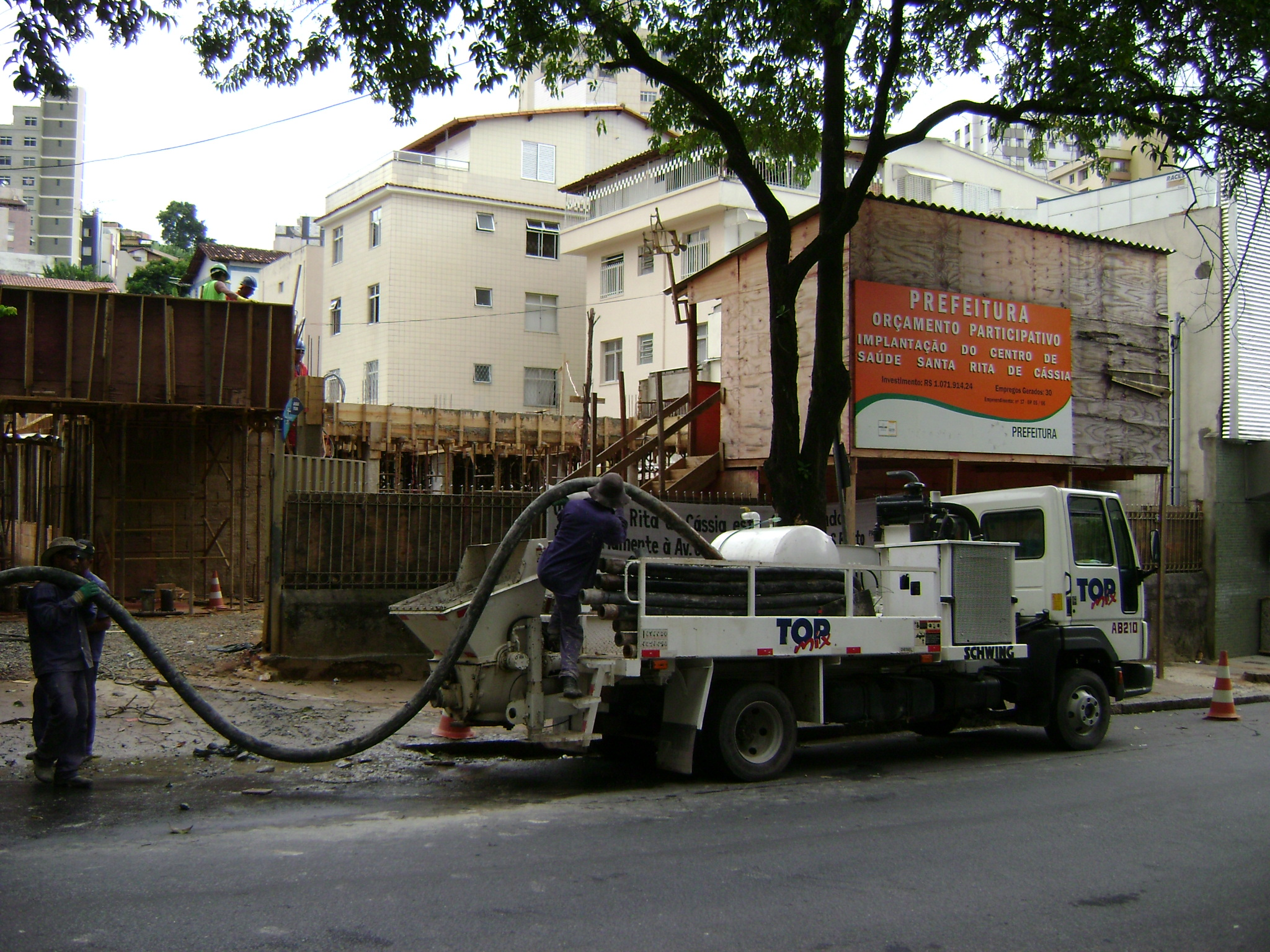 Implantação do Centro de Saúde Santa Rita de Cássia, em Belo Horizonte.